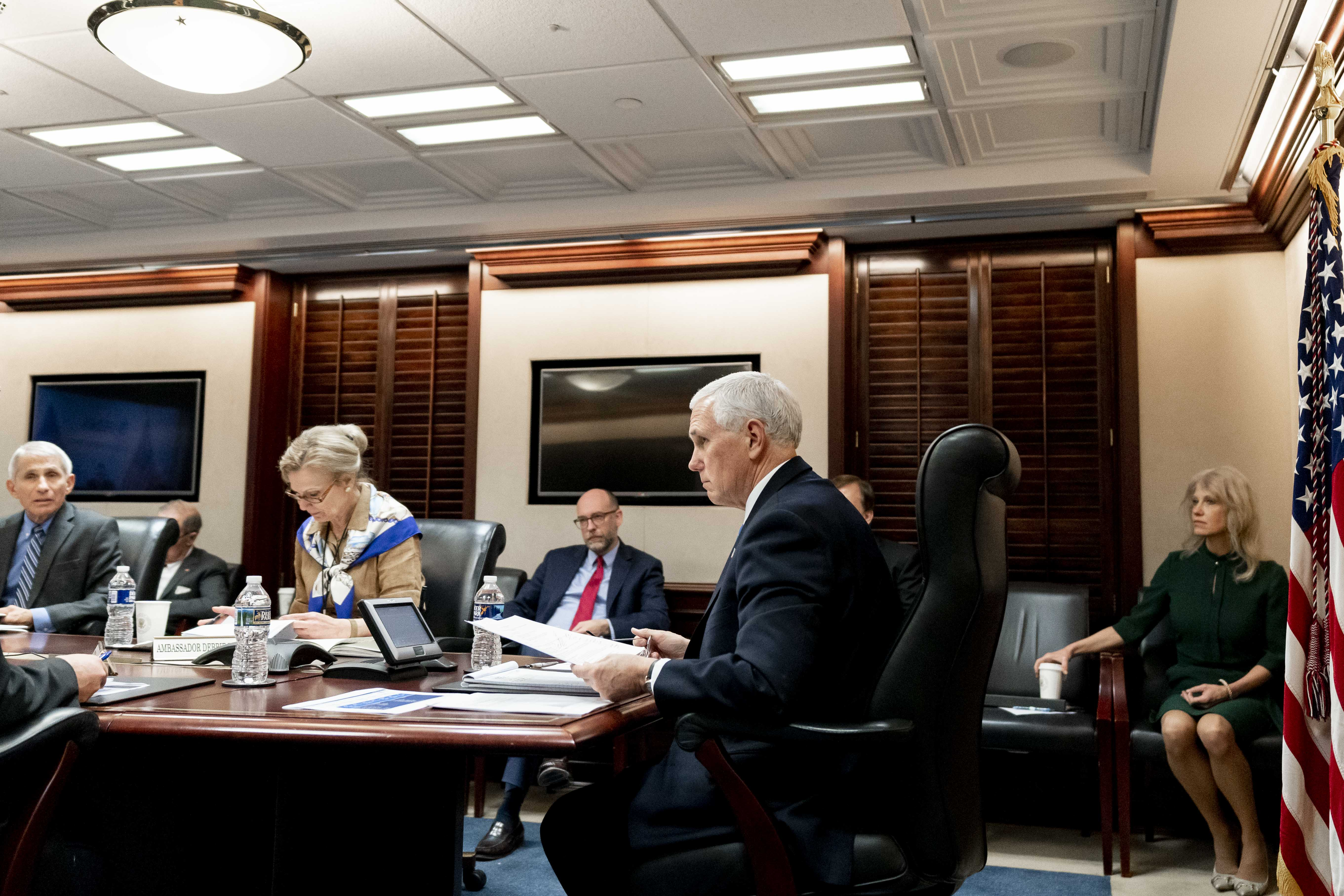 Vice President Mike Pence meets with members of the White House COVID-19 Coronavirus task force Monday, April 6, 2020, in the White House Situation Room. (Official White House Photo by D. Myles Cullen)